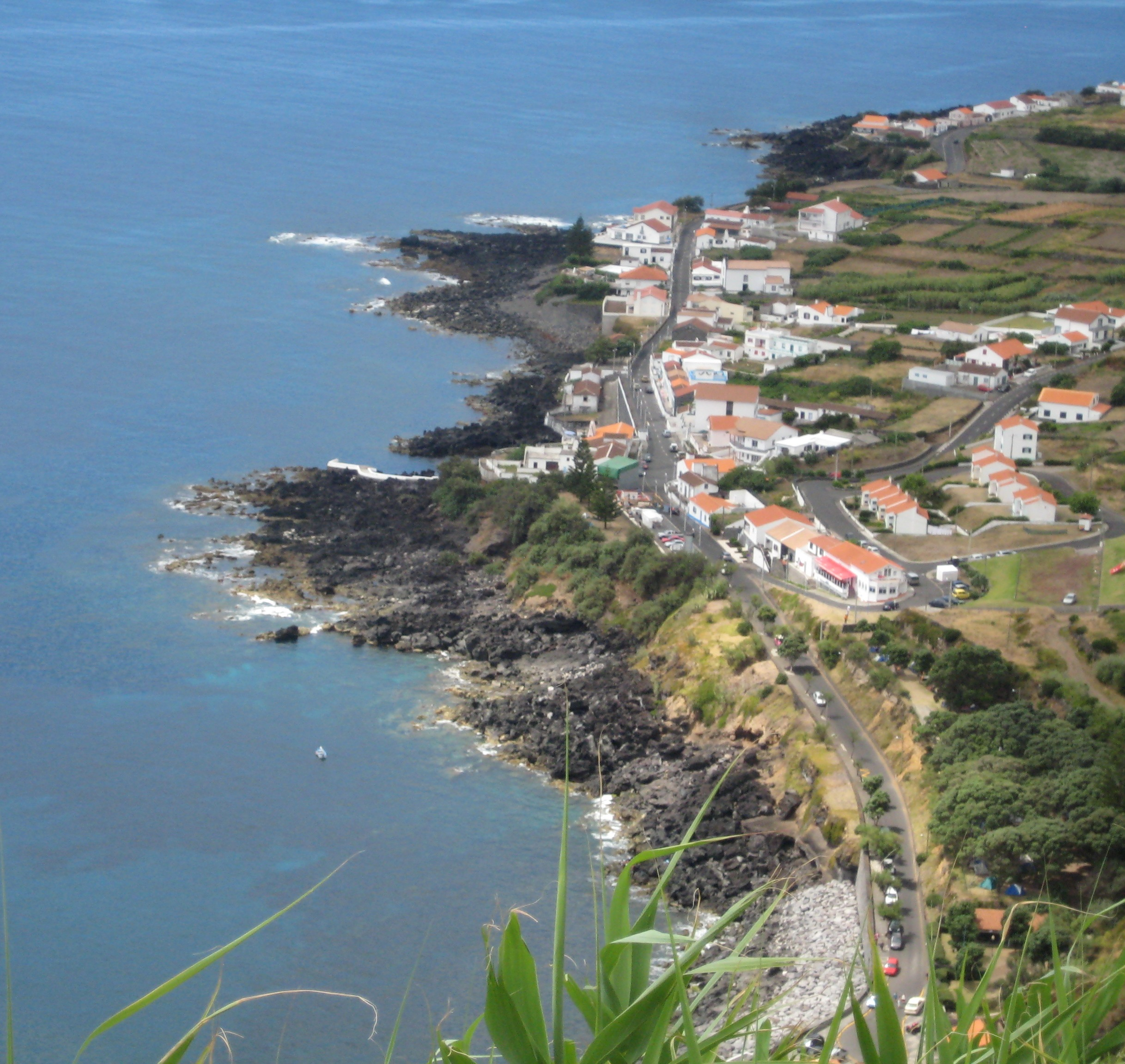 Carapacho